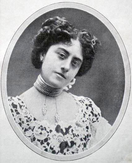 Maria Luisa de Silva y Fernández de Henestrosa, later Infanta of Spain and Princess of Bavaria